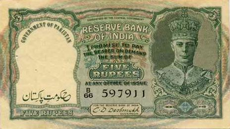 Indian rupees stamped with Government of Pakistan as a legal tender in the new state of Pakistan in 1947. Note printed between 11-08-1943 to 30-06-1949, the RBI Governor C. D. Deshmukh's tenure.